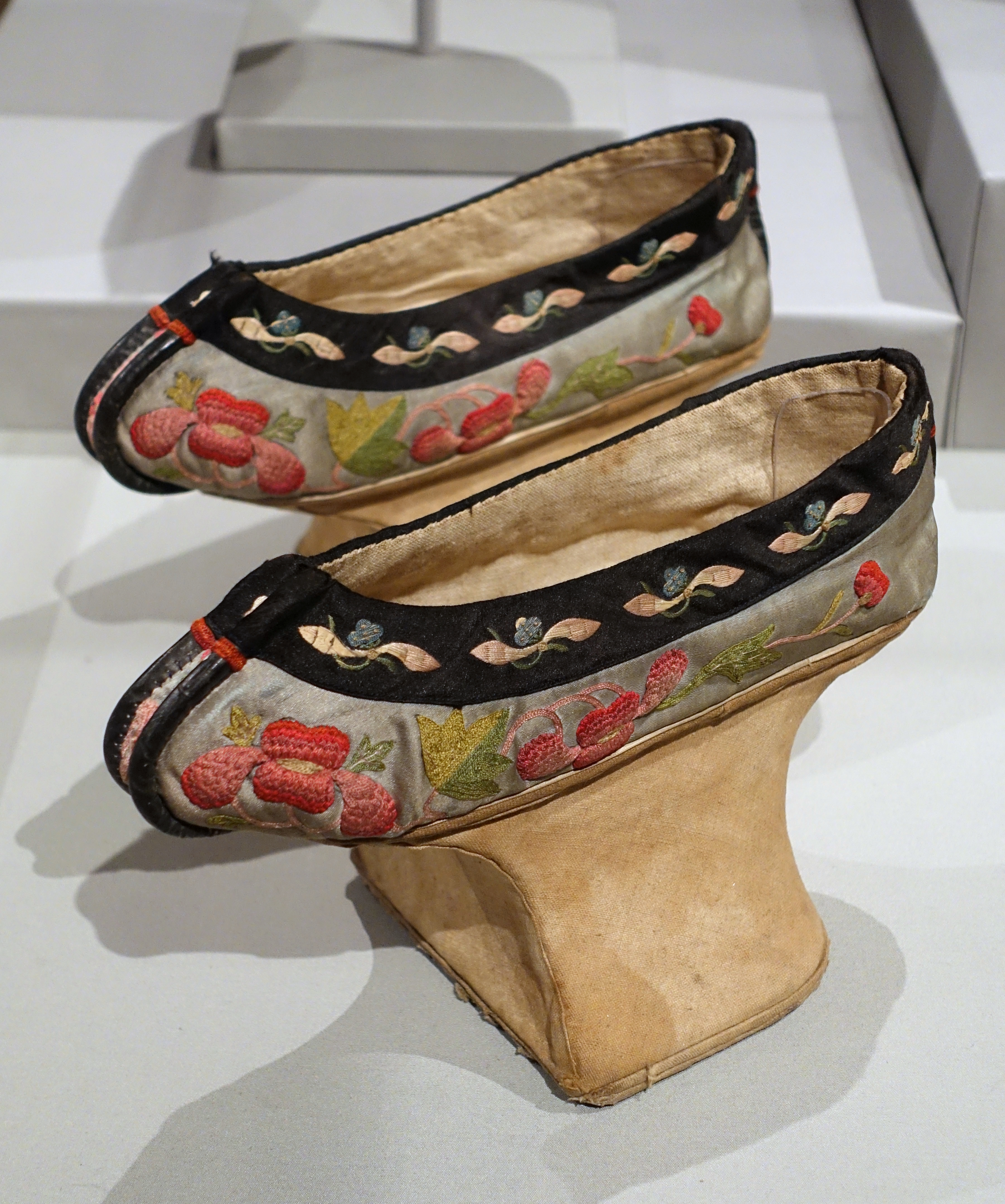 Exhibit in the Textile Museum, George Washington University, Washington, DC, USA. This work is old enough so that it is in the public domain.